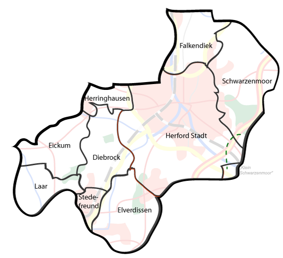 Map of Herford (Germany) showing the boroughs of Herford.